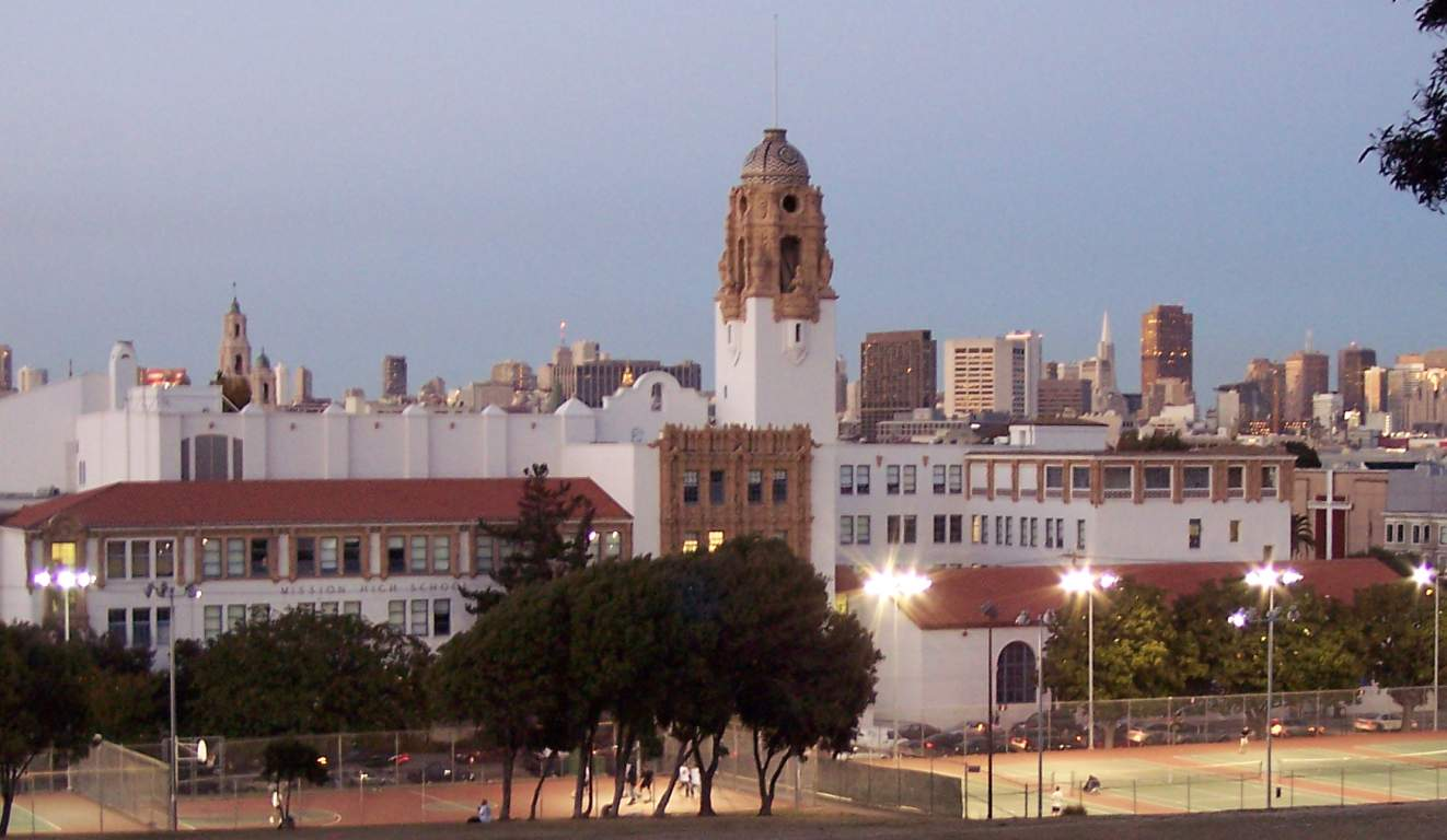 Mission High School - San Francisco, California